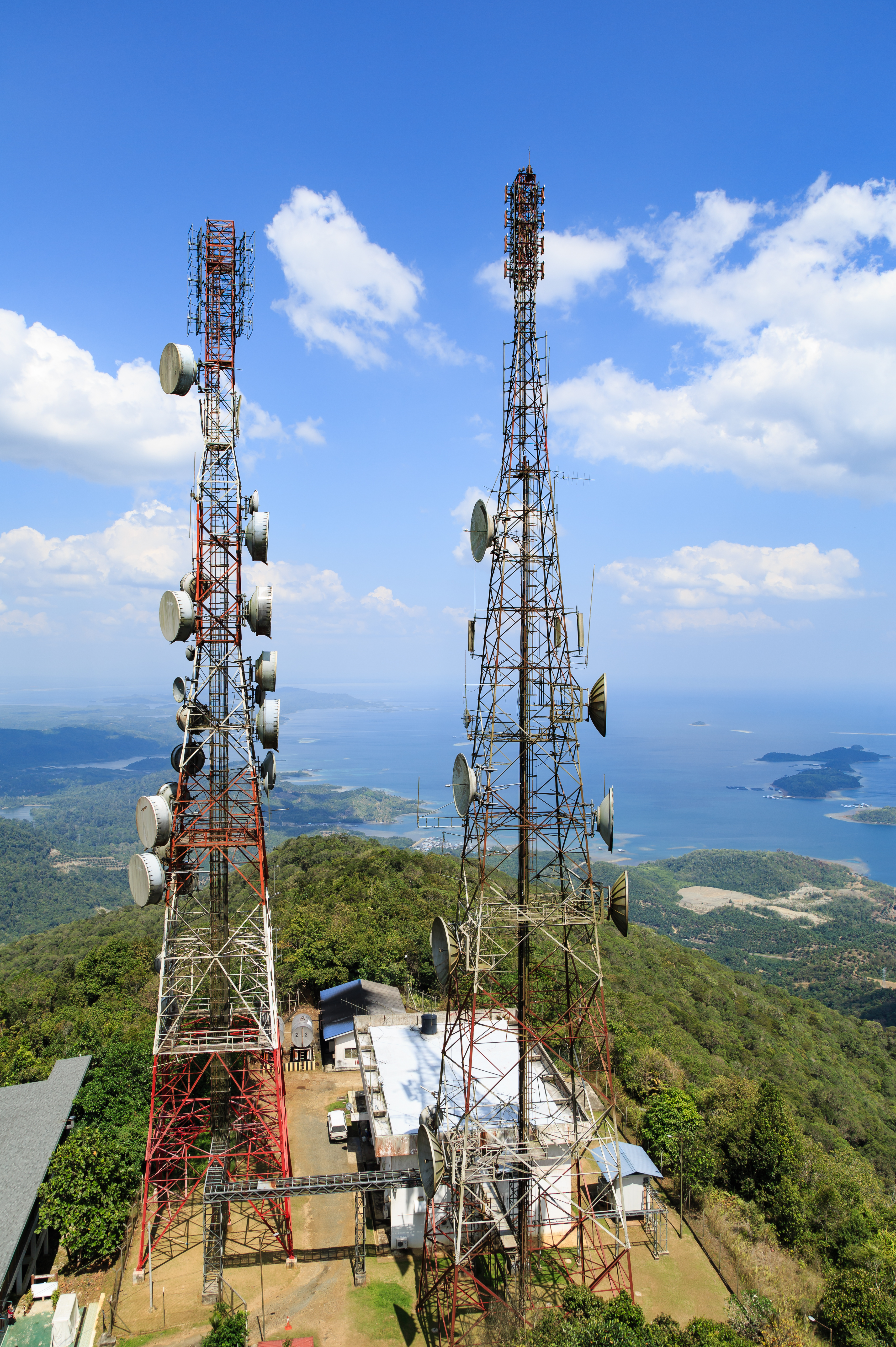 Lahad Datu, Sabah: Panoramic view from "Tower of Heaven" (Menara Kayangan) on Mount Silam over Darvel Bay. In the foreground two radio masts.